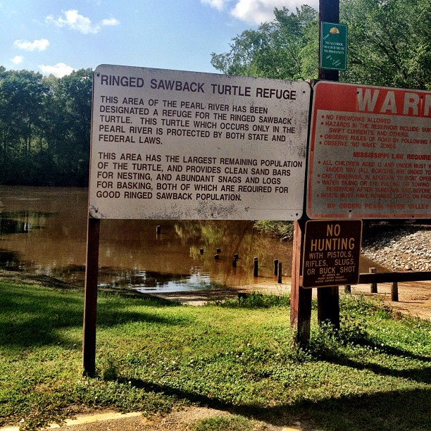 Sign at the Coal Bluff Campground and Park boat launch/nature trail entrance, giving notice of the presence of endangered Ringed Sawback turtles.